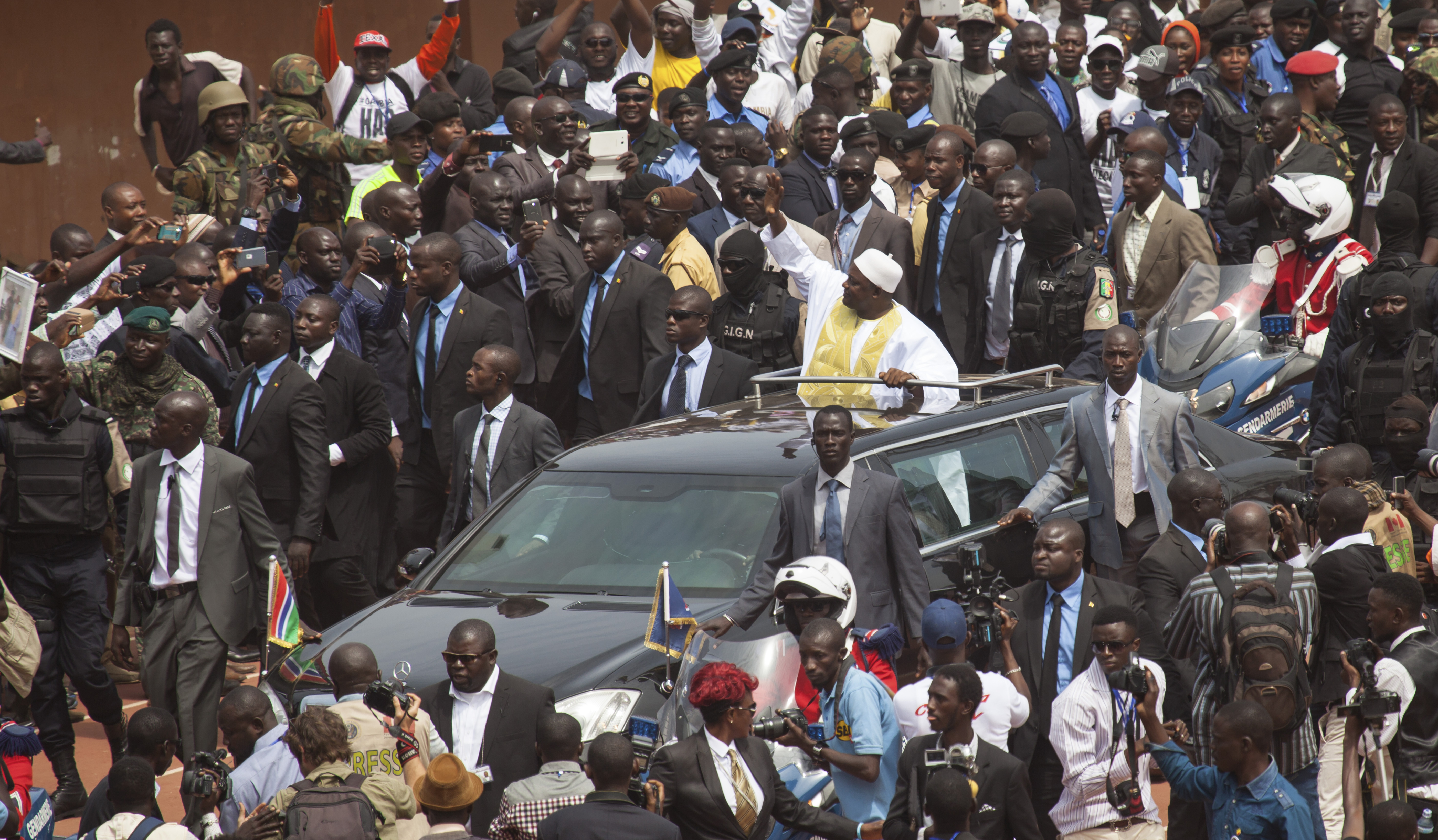 52nd Independence Anniversary Celebrations and Inauguration of His Excellency Mr. Adama Barrow President of the Republic of The Gambia Saturday 18th February 2017